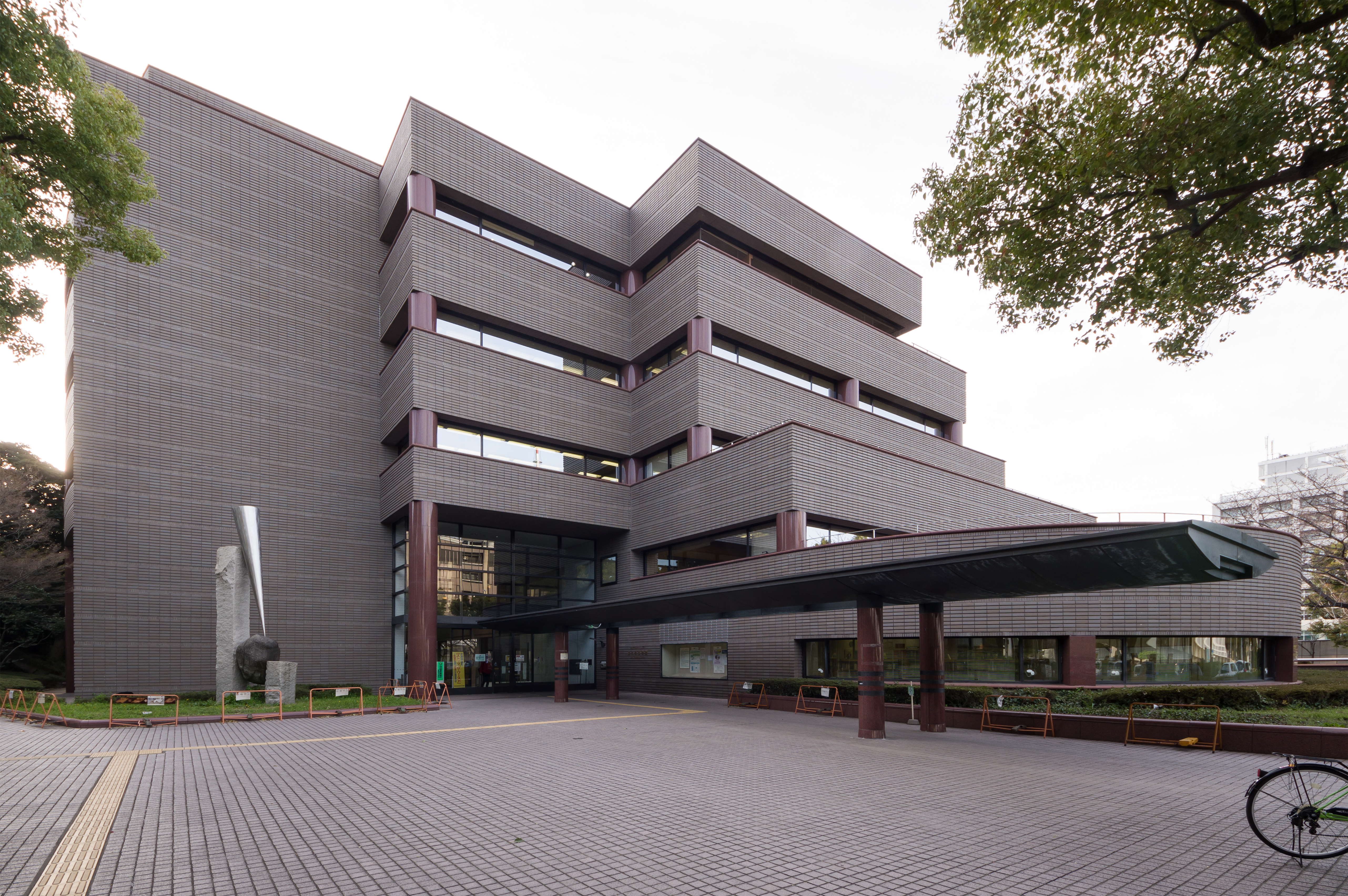 Aichi Prefectural Library Main Entrance